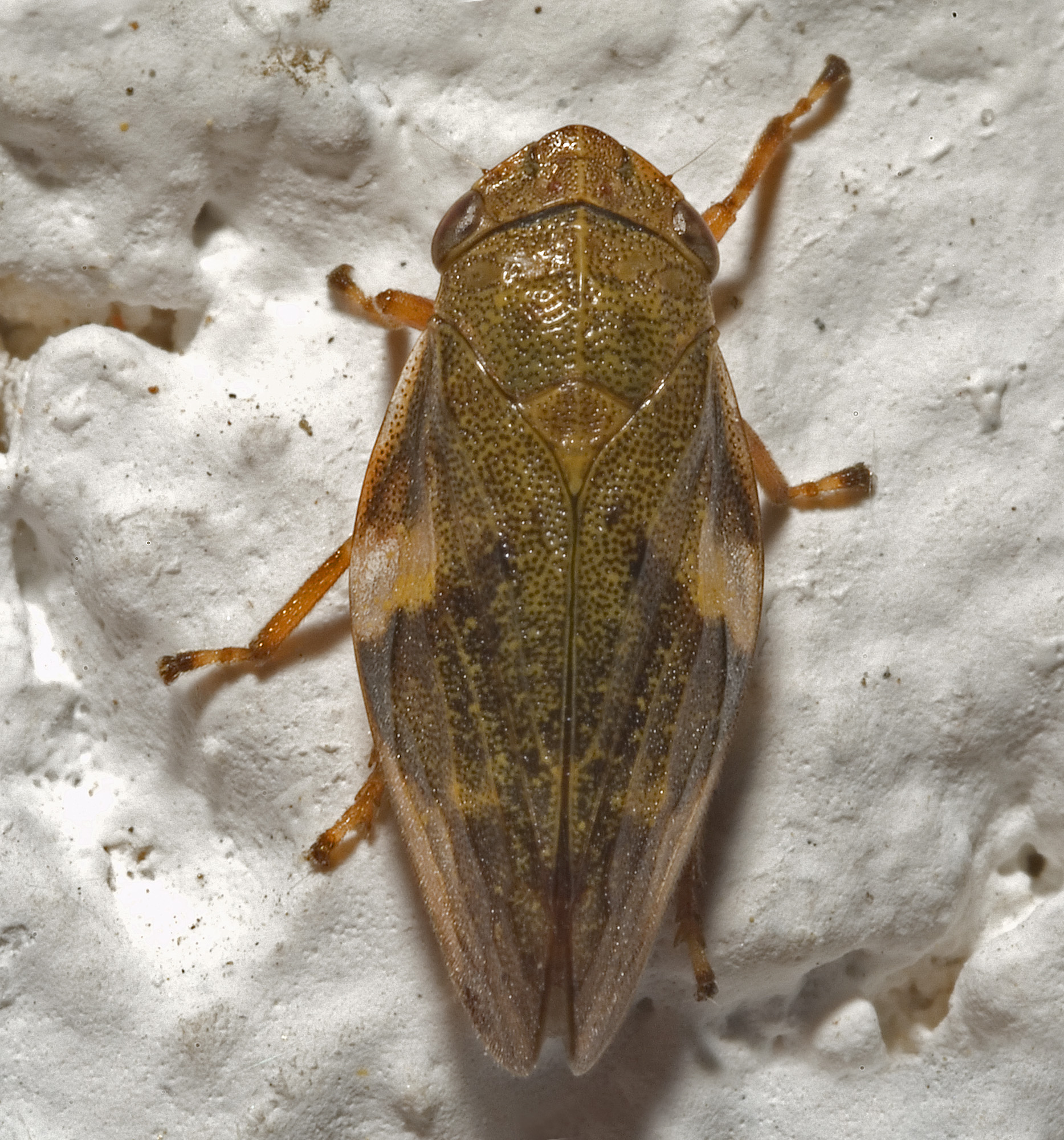 Please report references to kulacgmx.at.